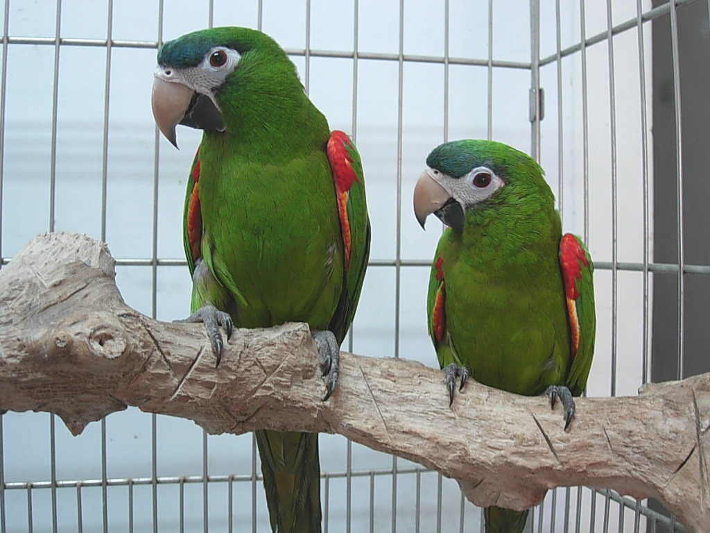 Red-shouldered Macaw (also known as the Noble Macaw, Long-wing Macaw or Hahn's Macaw); two in a cage.